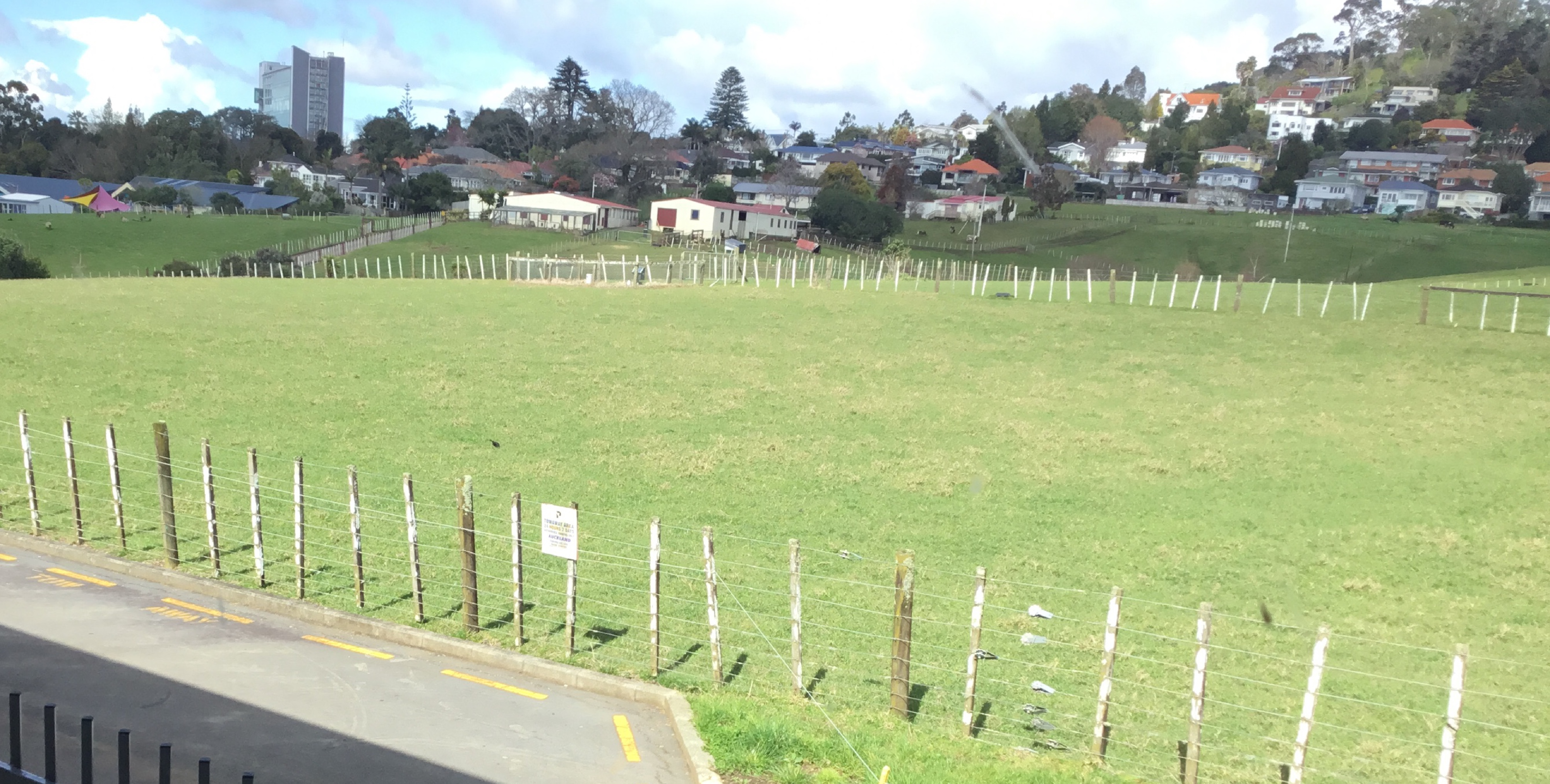 This is a photo of the mags farm as seen from the upper floor of D-Block